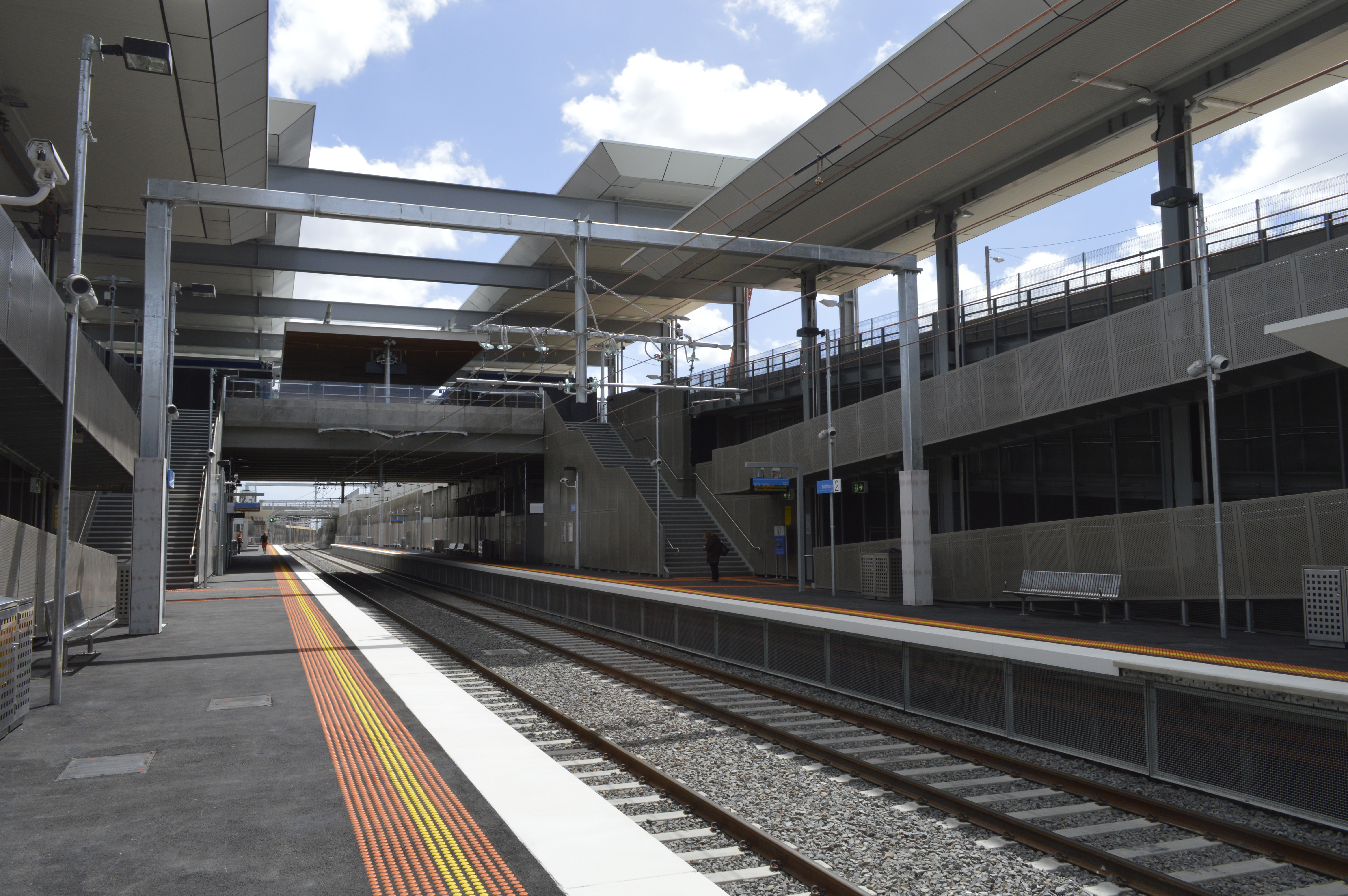 Looking west towards Melbourne.